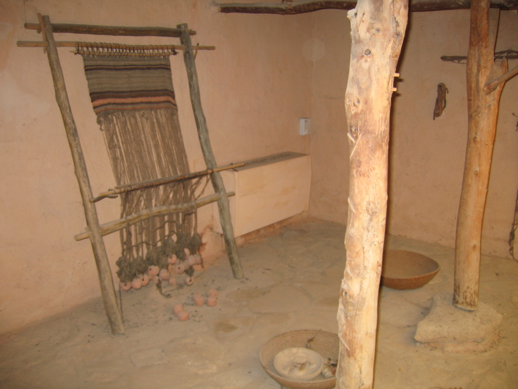 a reconstructed israelite house, Monarchy period, 10th-7th cents b.c.e. Eretz Israel Museum, Tel Aviv, Israel.